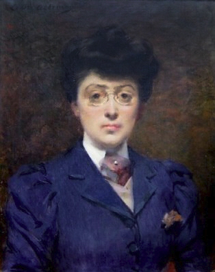 Self-portrait